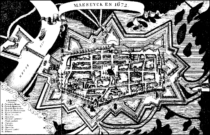 The city of Maaseik, fortified in 1672 by the Marquis de Vauban. Seen from the north.